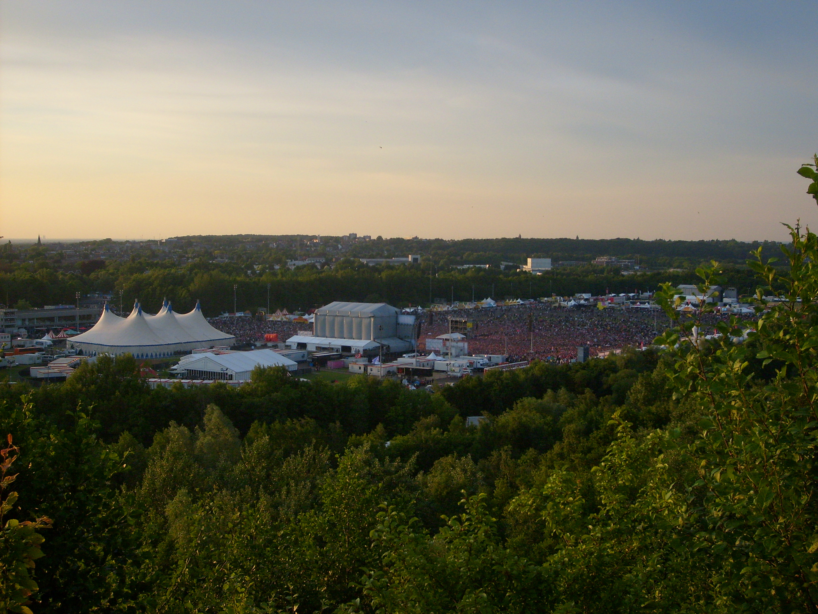 Pinkpop 2009 at Megaland Landgraaf